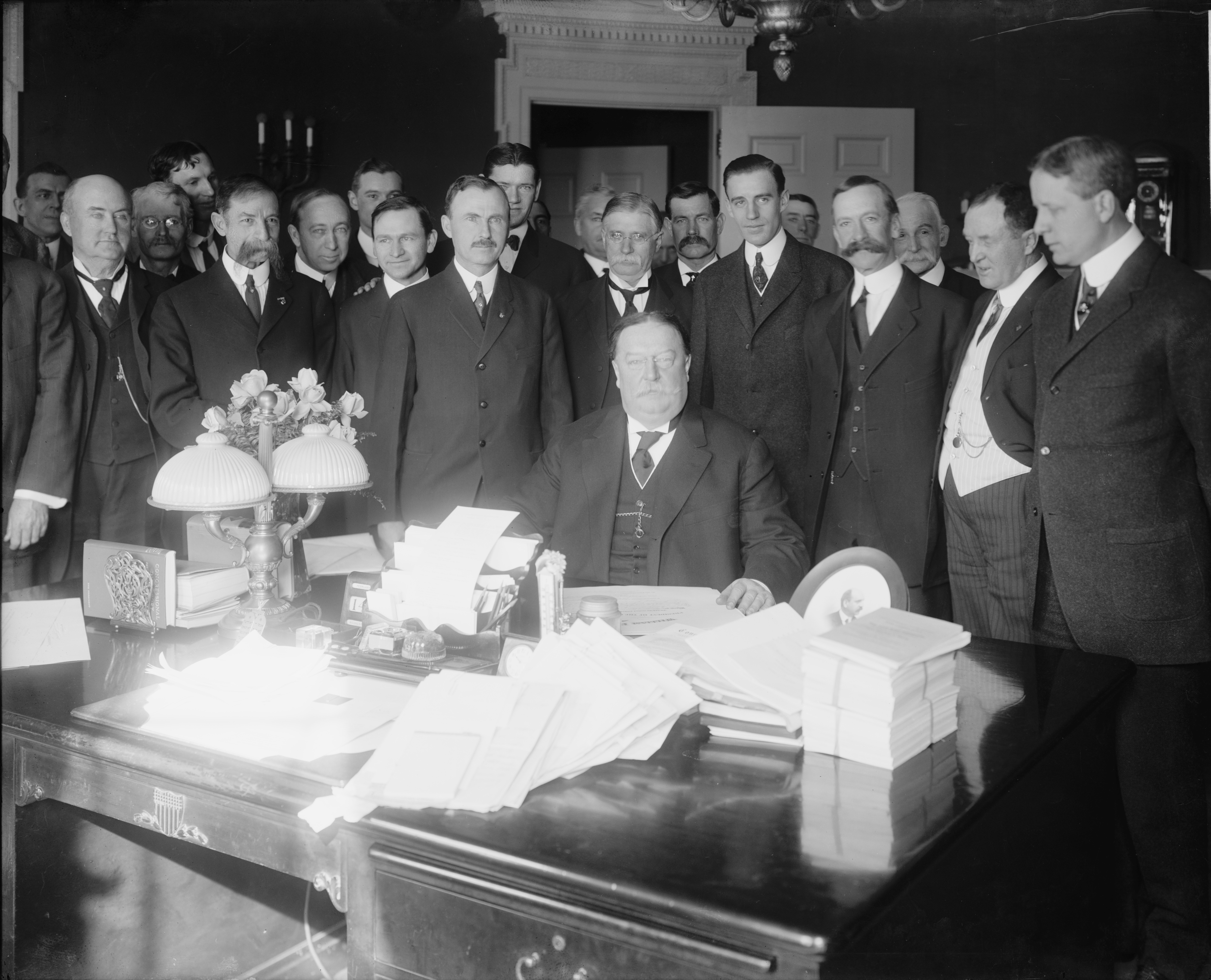 President William Howard Taft signing Arizona Statehood Bill — 14 February, 1912. With Ralph Henry Cameron attending, the Arizona Territorial Delegate.